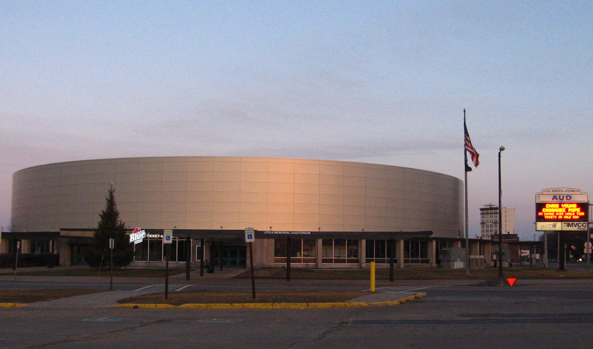 Utica Memorial Arena, Utica, New York after its 2015 renovation